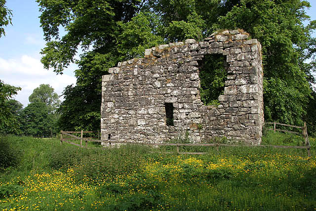 Langholm Castle This shows the remains of a ruined 16th century peel tower that was home to the Armstrong family.